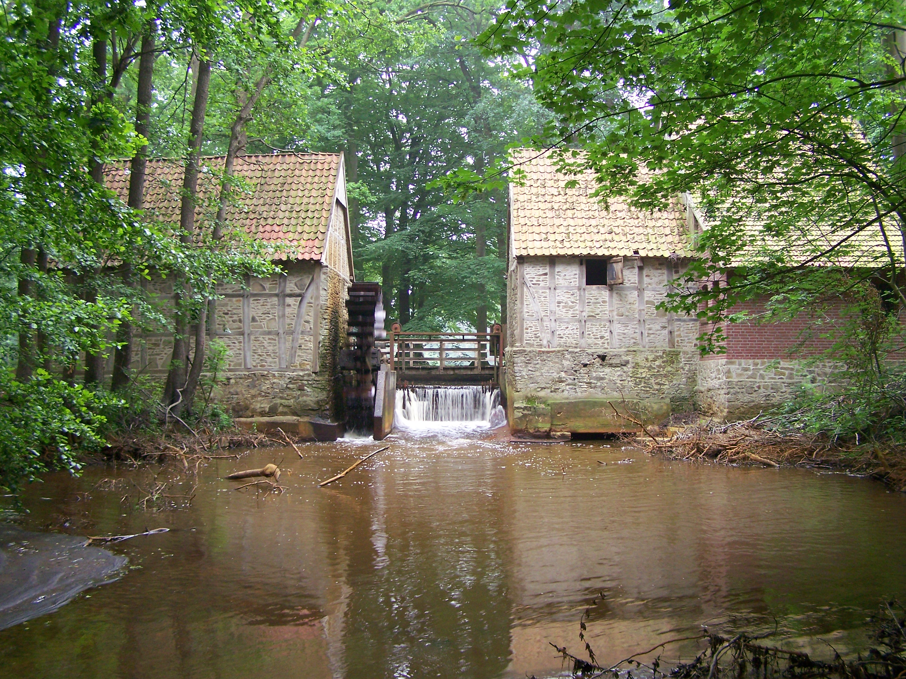 Oilmill in Hopsten-Halverde Germany This is a photograph of an architectural monument.